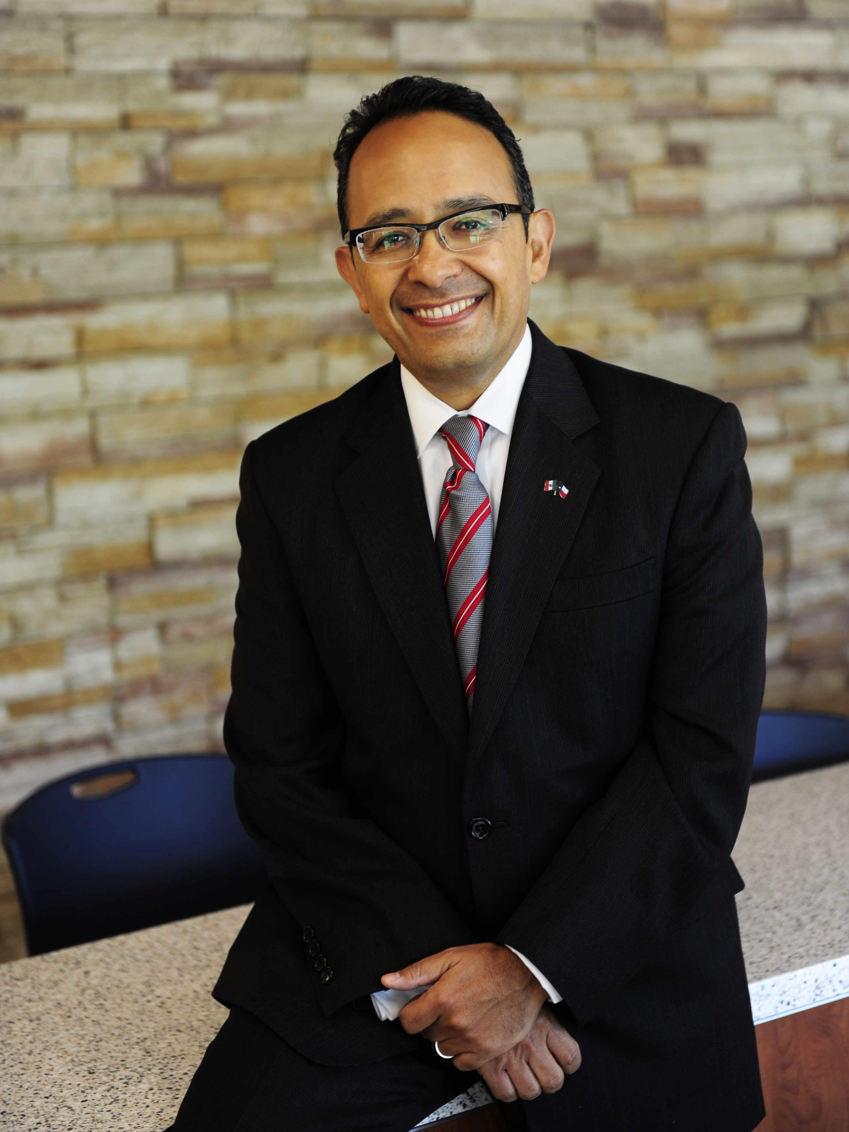 Embajador Carlos González Gutiérrez Cónsul General de México en Austin